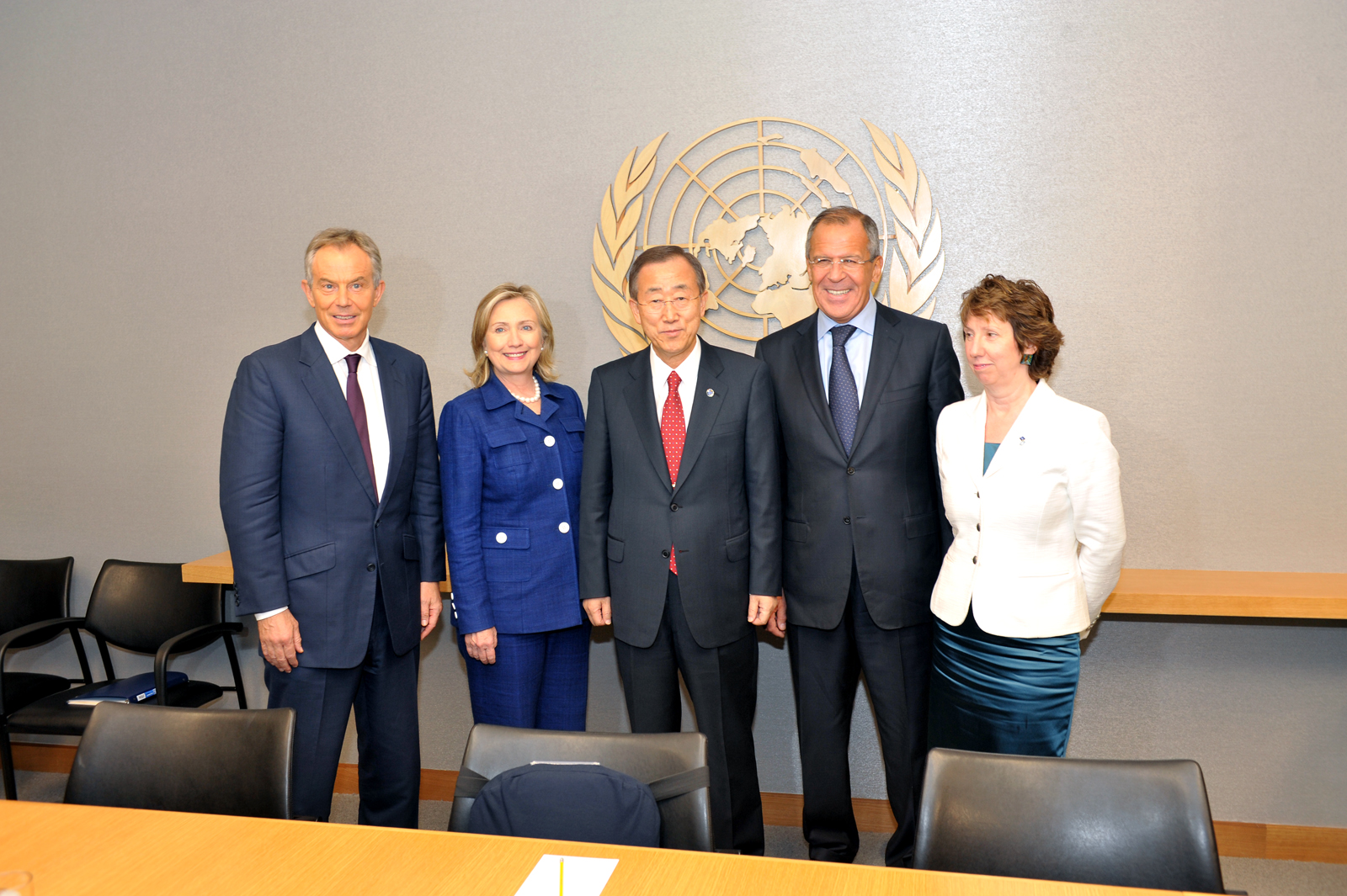 U.S. Secretary of State Hillary Rodham Clinton (second from left) poses for a photo with the Quartet, including Quartet Representative Tony Blair (left), UN Secretary General Ban Ki-Moon (center), Russian Foreign Minister Sergey Lavrov (fourth from left), and EU High Representative Catherine Ashton in the Secretary General's Conference Room at the United Nations in New York, New York, on September 21, 2010. [State Department photo/ Public Domain]